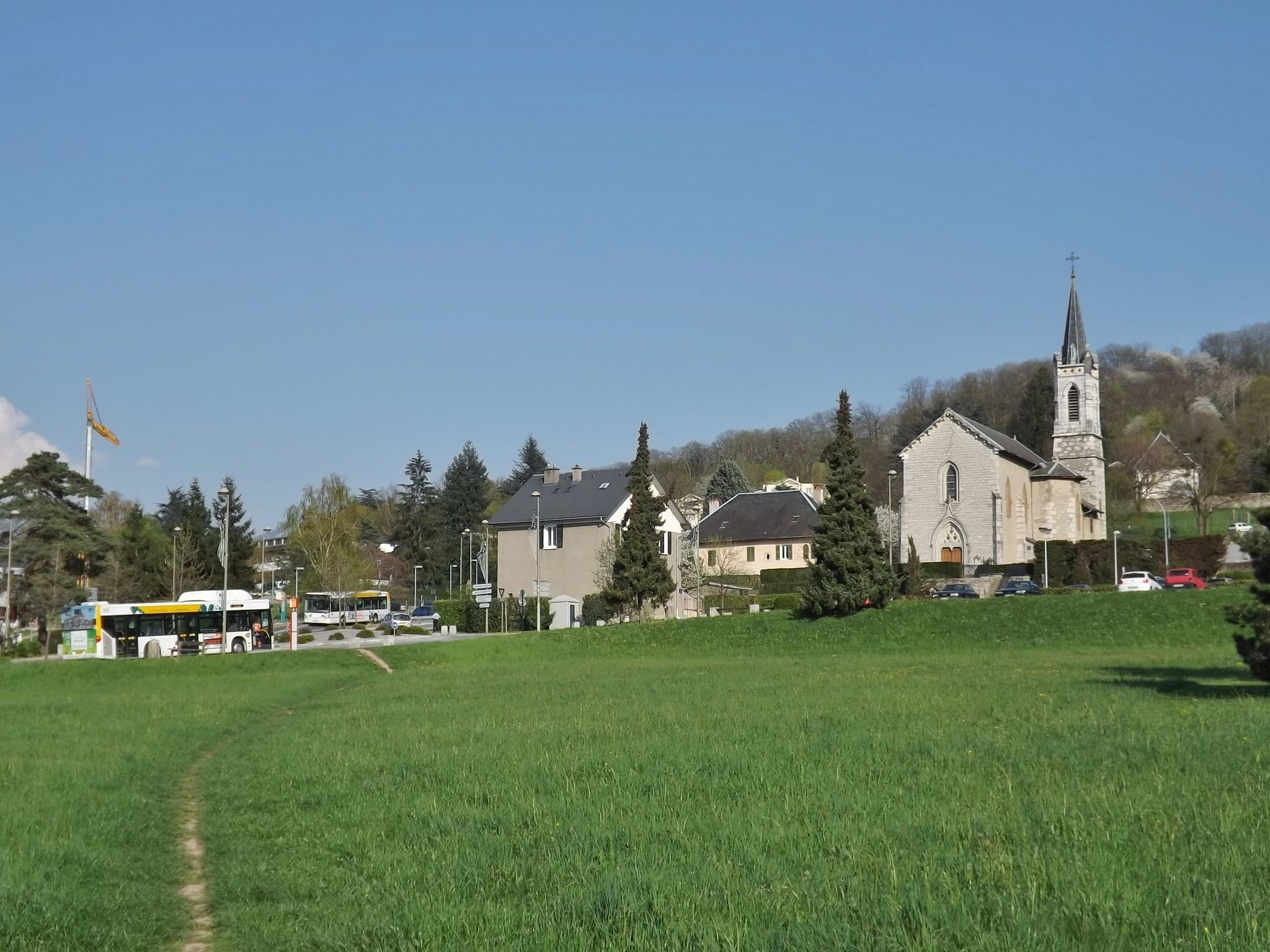 Sight of the French commune of Jacob-Bellecombette near Chambéry in Savoie, with the church and on the left, the University of Savoie campus.